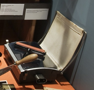 Electric dryer for photo papers